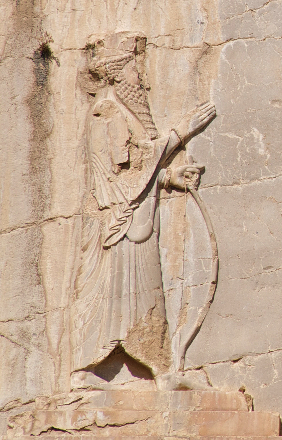 Xerxes I relief